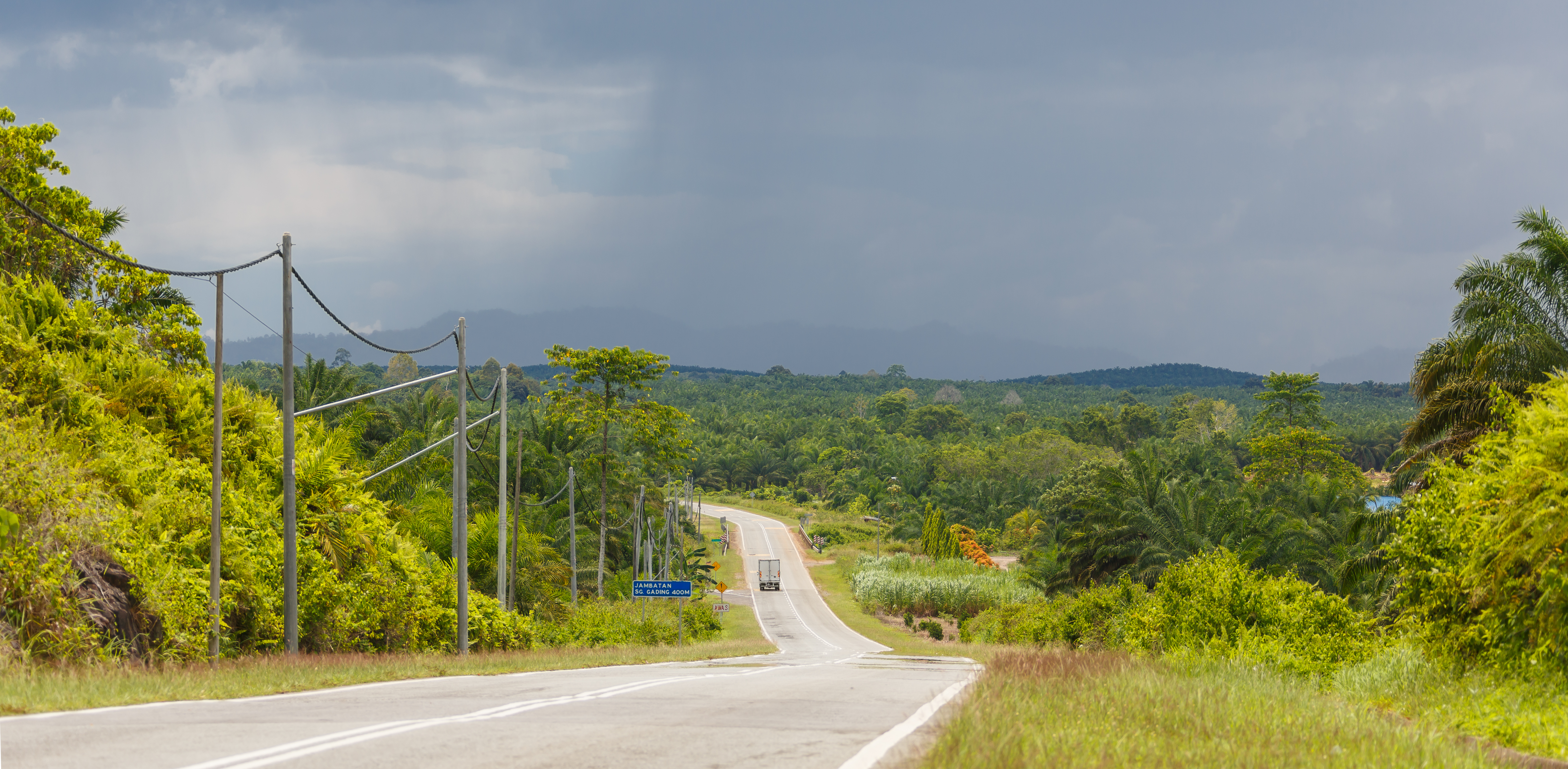 District Semporna, Sabah: Semporna-Kunak Road